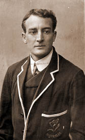 Tom Richards Aust RU 1908